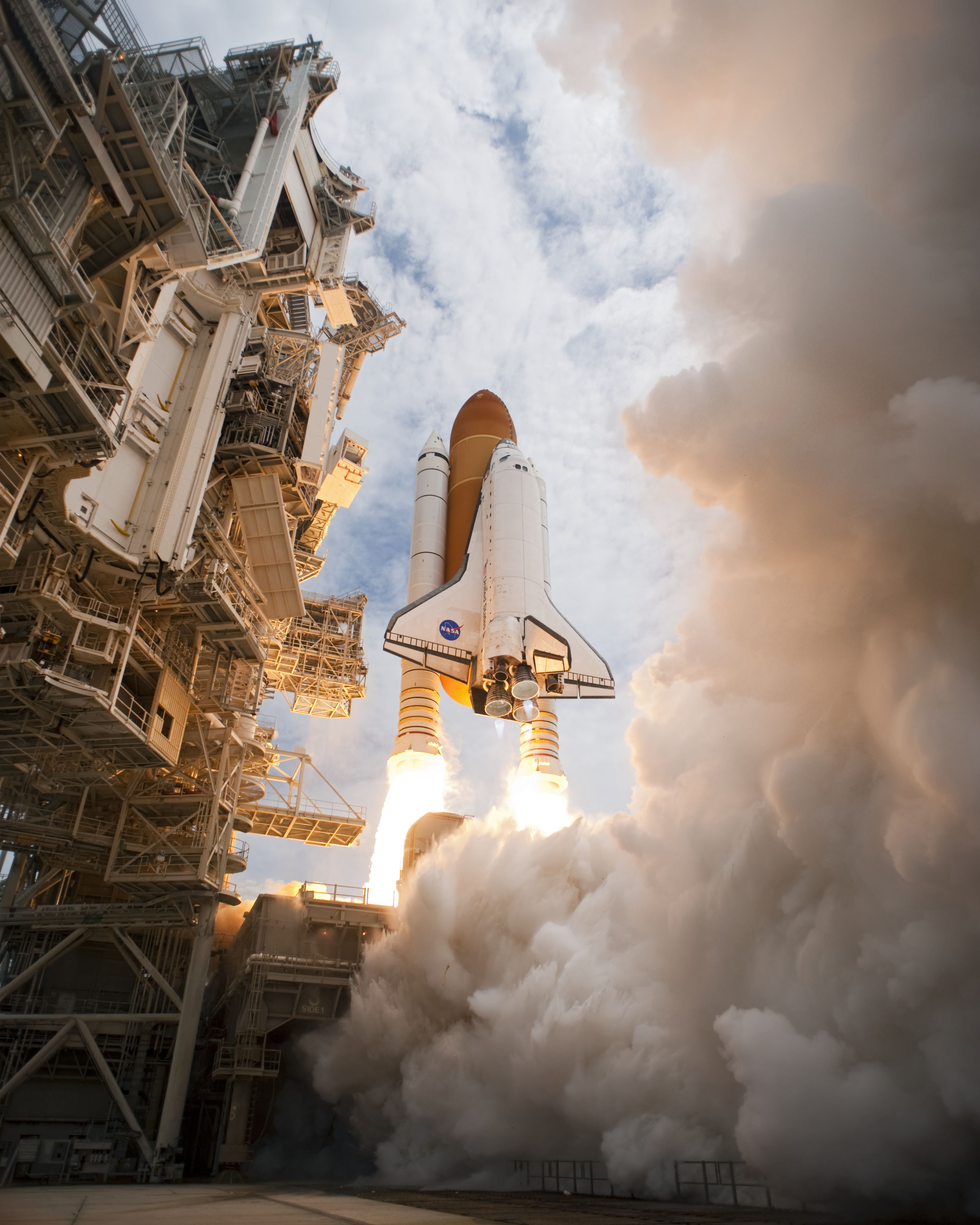 (July 8, 2011) Space Shuttle Atlantis' STS-135 mission launched from Launch Pad 39A at Kennedy Space Center on July 8, 2011. STS-135 was the last Space Shuttle mission. The crew of four delivered supplies to the ISS. Image # : KSC-2011-5420